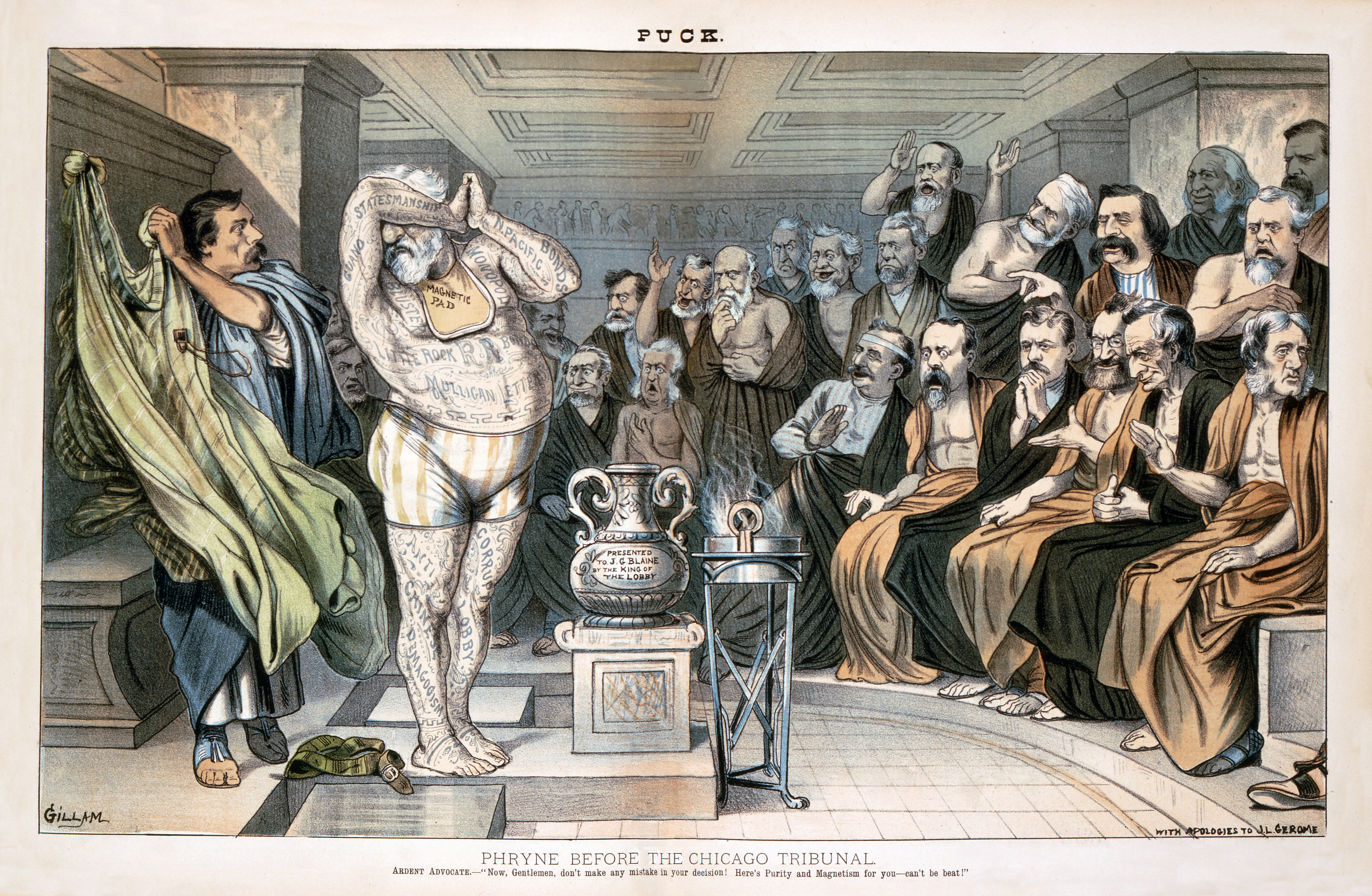 1884 US political cartoon showing James G. Blaine covered in his scandals, (based on J.-L. Gerome's painting of Phryne; see File:Jean-Léon Gérôme, Phryne revealed before the Areopagus (1861) - 01.jpg)